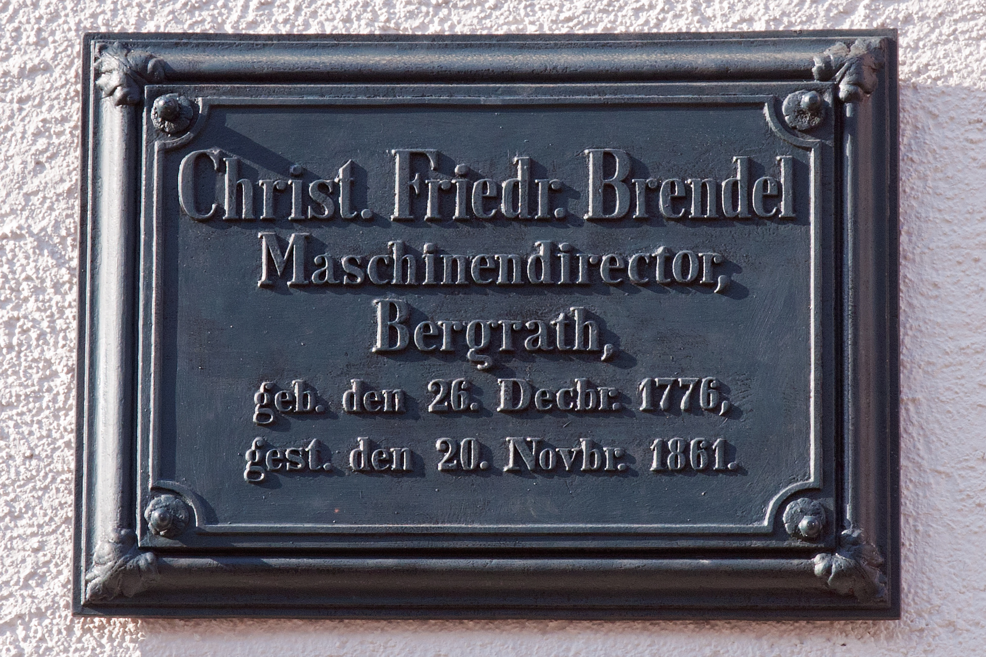 Christian Friedrich Brendel, plaque at his house in Freiberg, Saxony